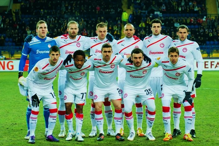 Olympiacos FC 2012